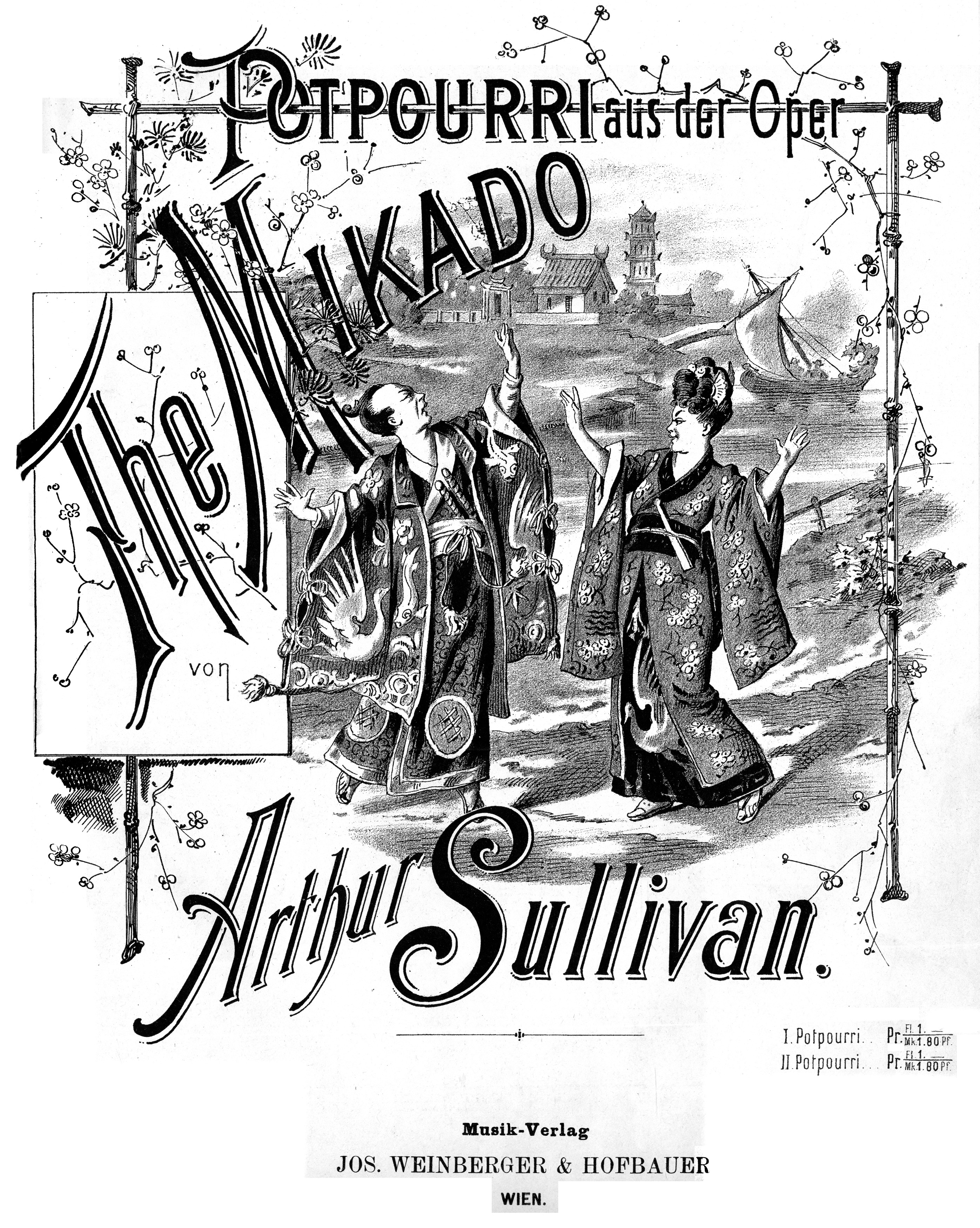 The Mikado